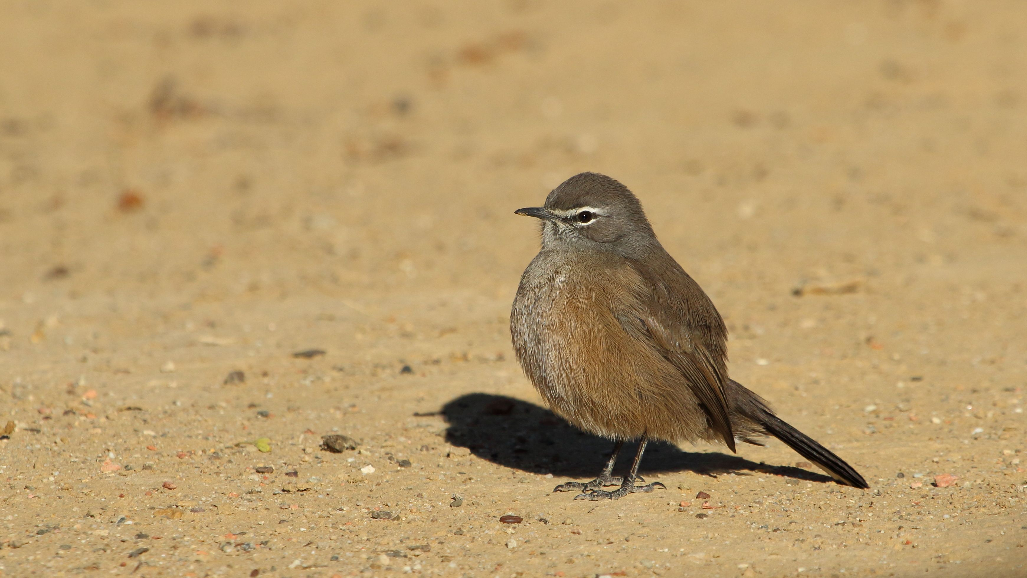 Karoo scrub robin (Cercotrichas coryphaeus) at Sadawa Game Reserve; 24 March 2017